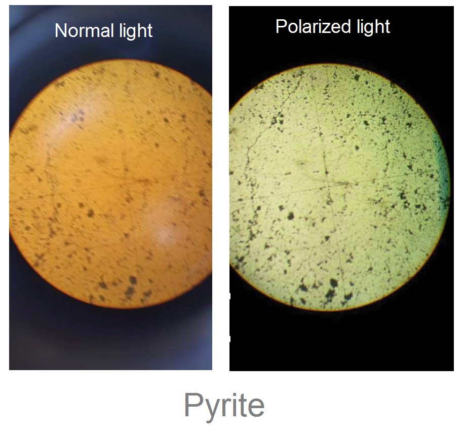 Microscopic image of Pyrite under Normal and Polarized light